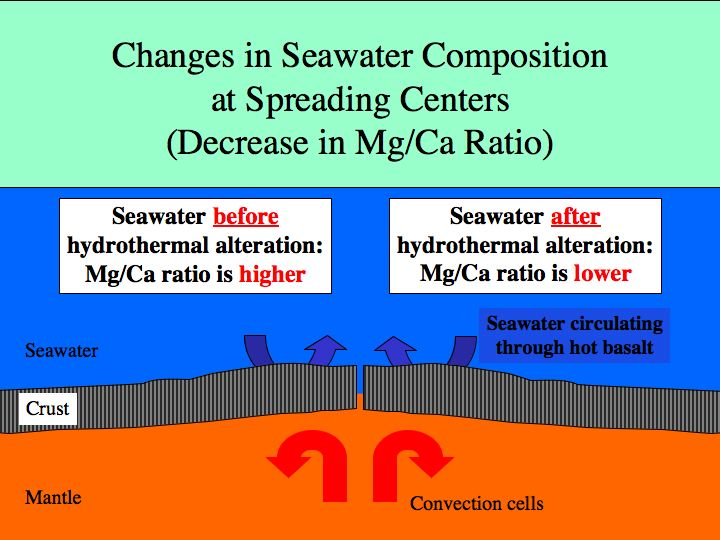 Tectonic mechanism for changing Mg/Ca ratios in seawater. Image created by Mark A. Wilson (Department of Geology, The College of Wooster). [1]